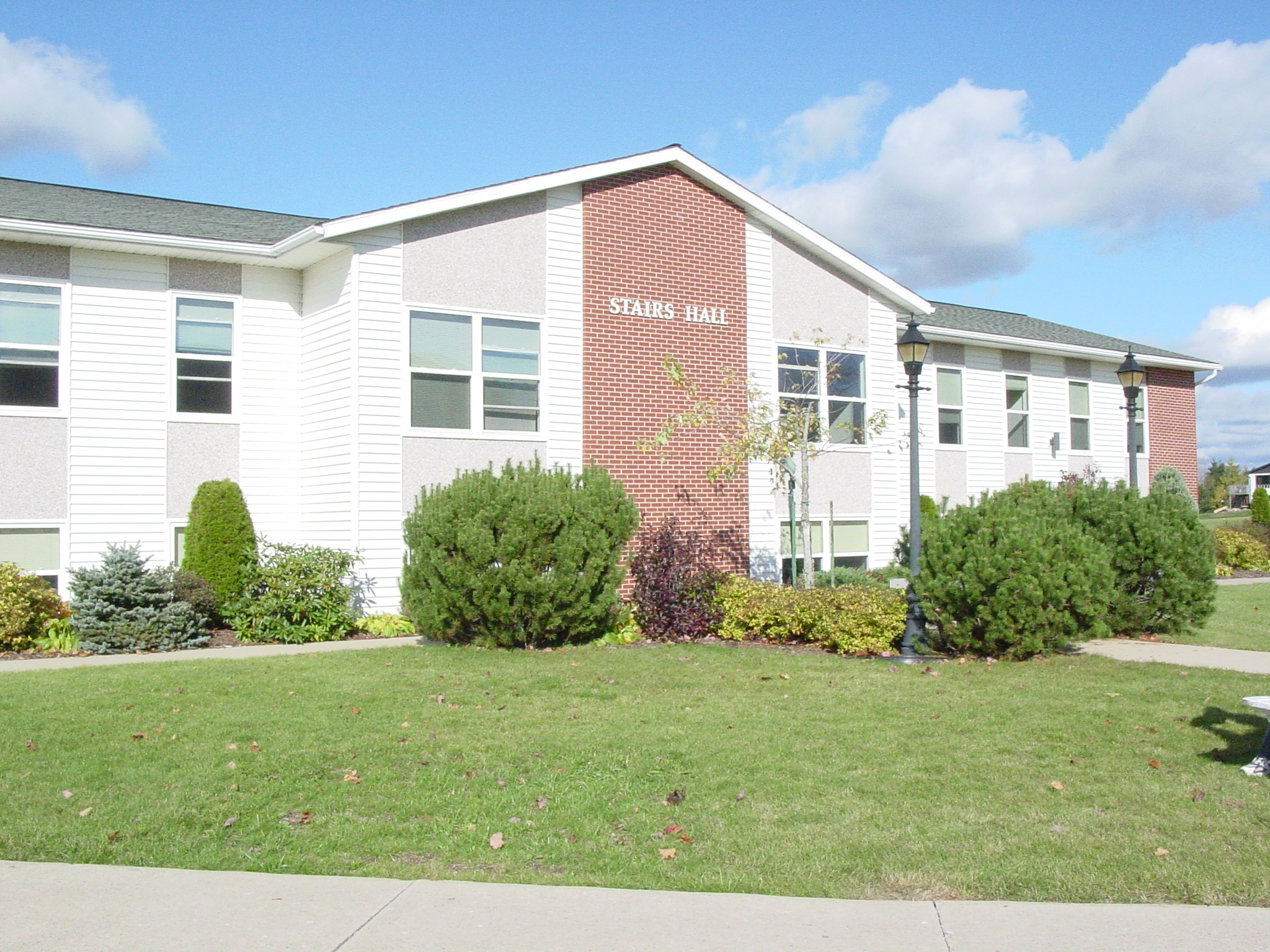 Kingswood University - Stairs Hall